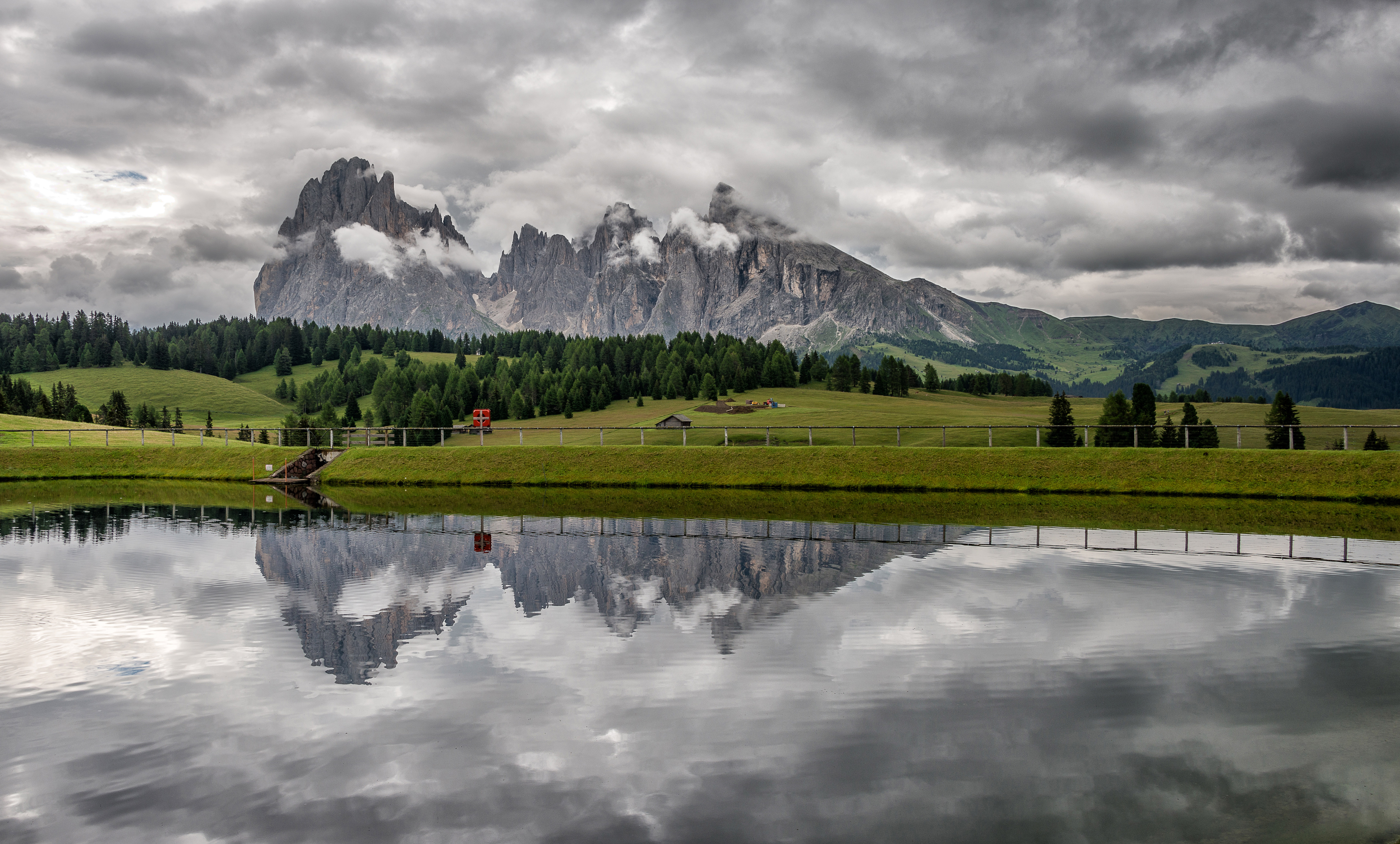 Dark and gloomy atmosphere at Alpe di Siusi in italian Dolomites.